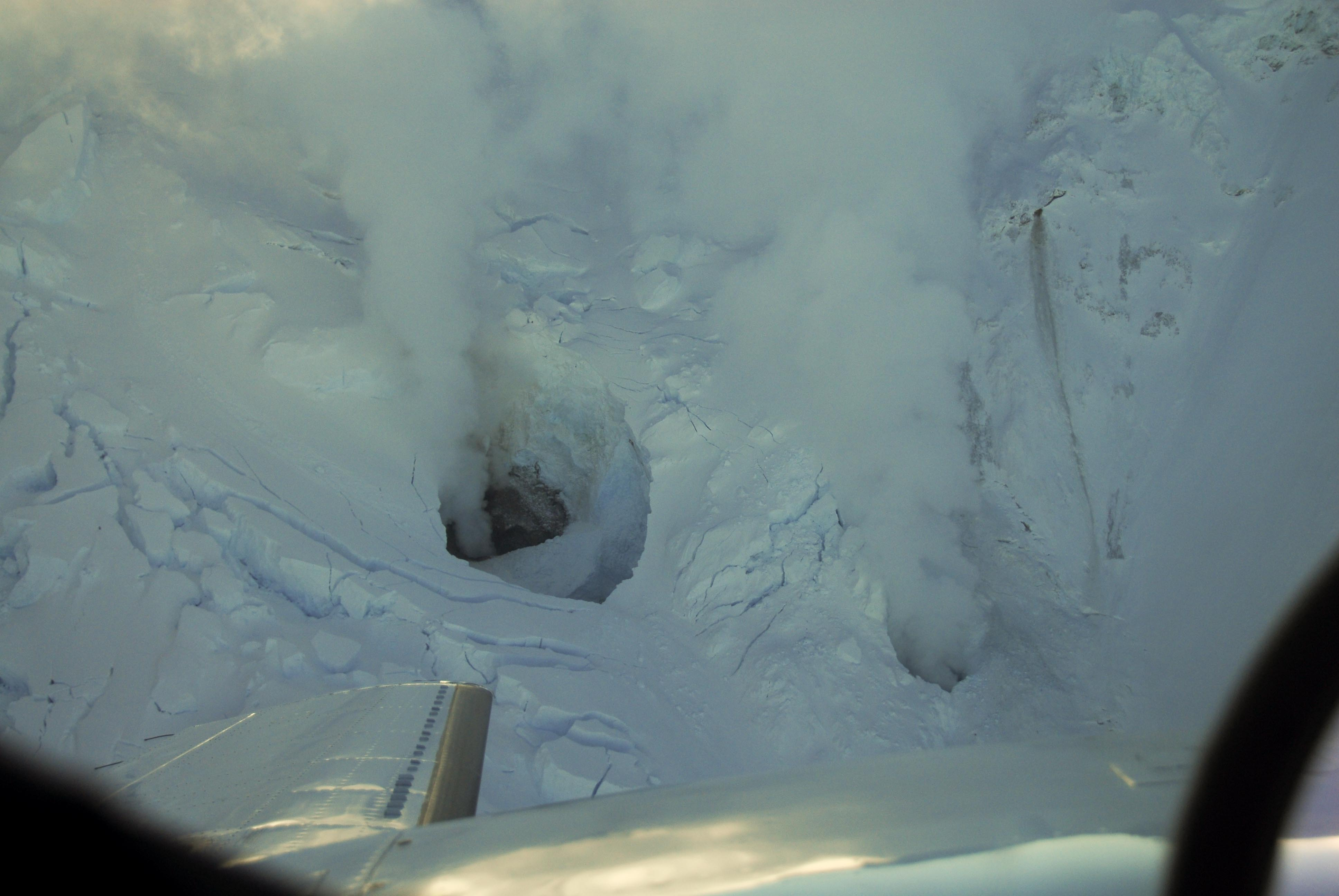 Fumarole on Mt. Redoubt in Alaska